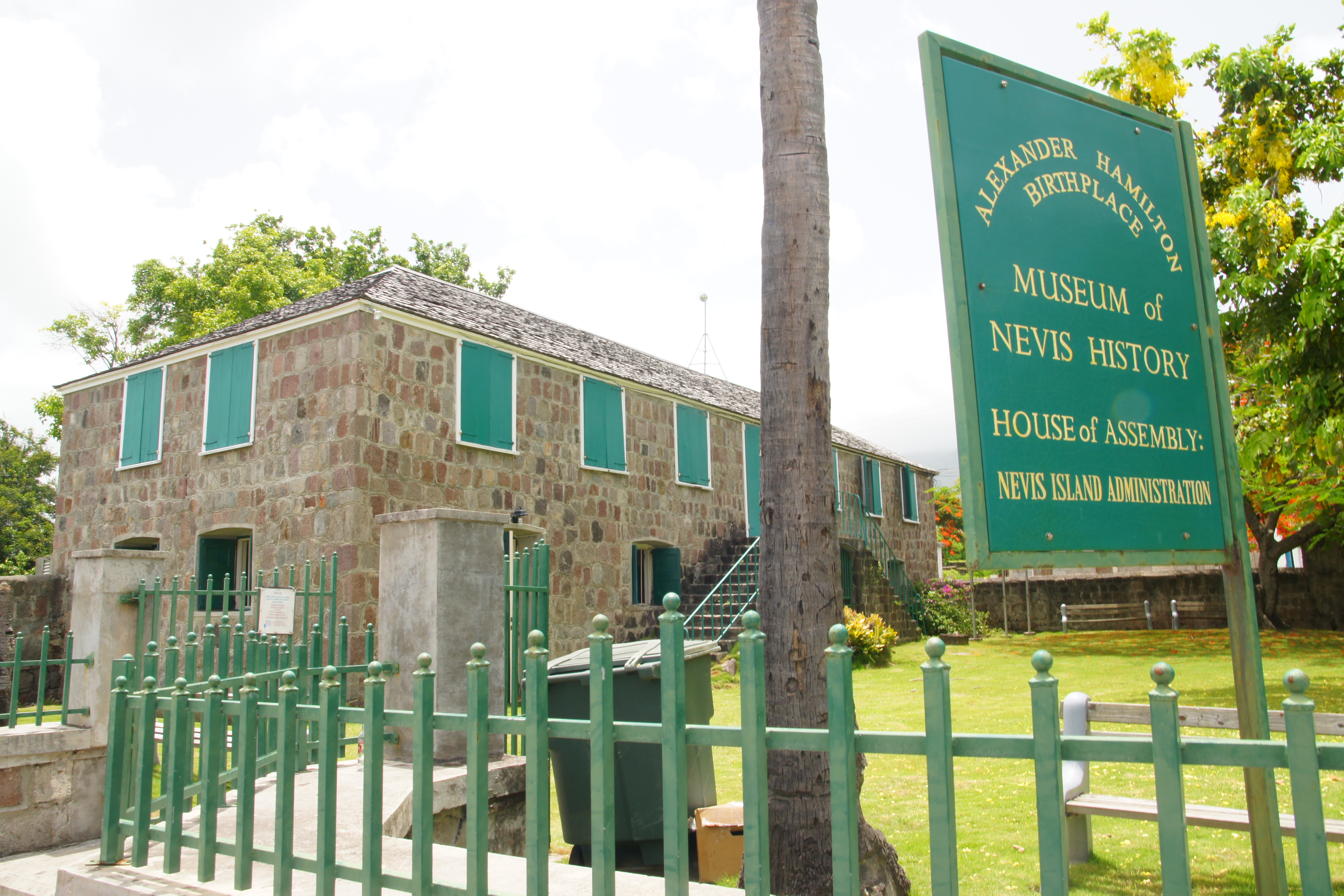 The Museum of Nevis History, Charlestown, Nevis, housed in a restored Caribbean Georgian building, built on the foundation of the structure where Alexander Hamilton was born in 1757 (or 1755).